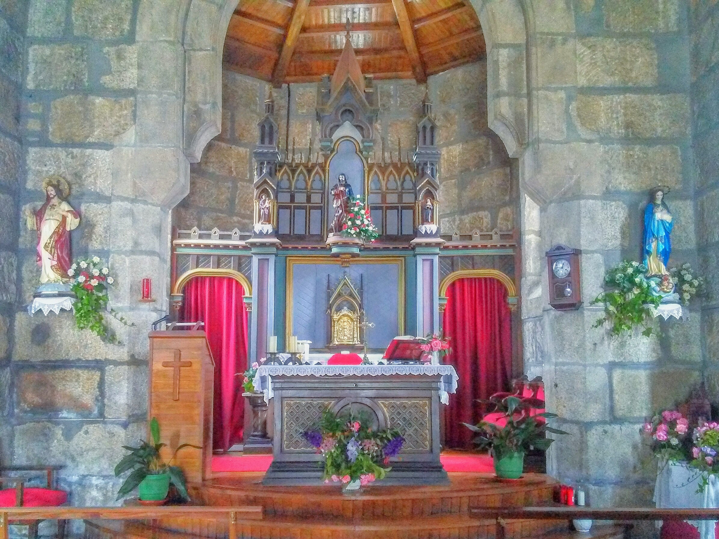 Iglesia de San Lázaro (Peliquín, Ourense)